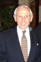 Picture of the Hon. Romano Mazzoli, former Congressman, taken in downtown Louisville Kentucky in 2006.